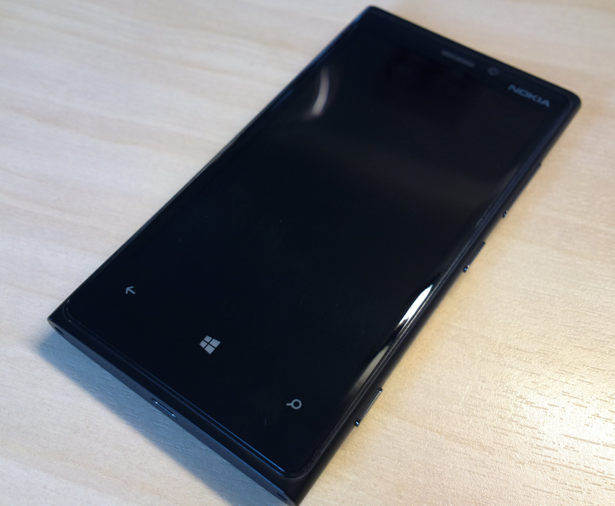 A Nokia Lumia 920 smartphoneEesti: Nokia Lumia 920 nutitelefon